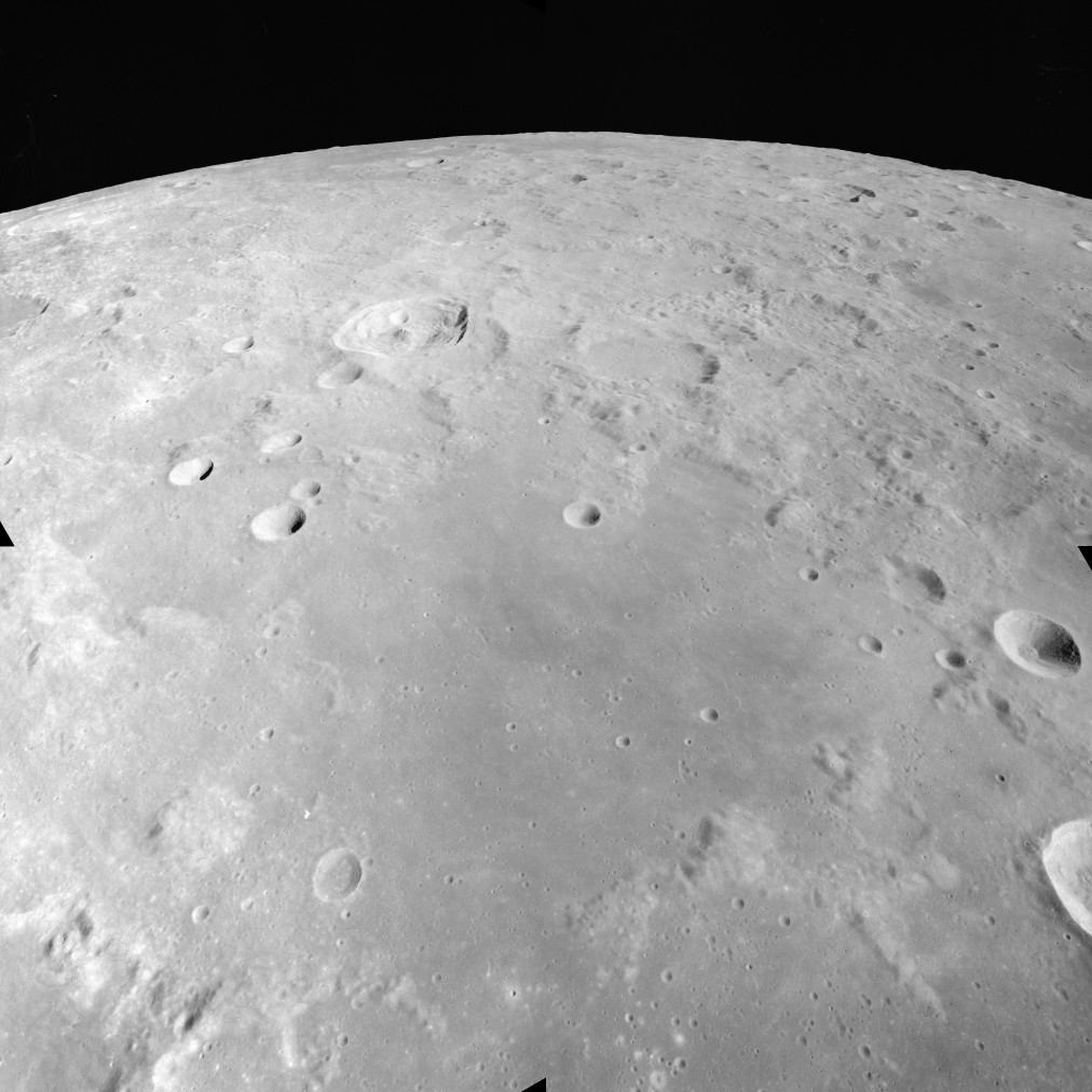 Northern Sinus Amoris, northeast of the Mare Tranquillitatis, on the moon. Römer is above left of center.